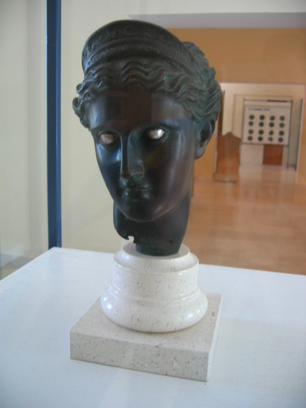 Bronze Greek bust of Artemis (300 BC), Vis museum, Island of Vis, Croatia